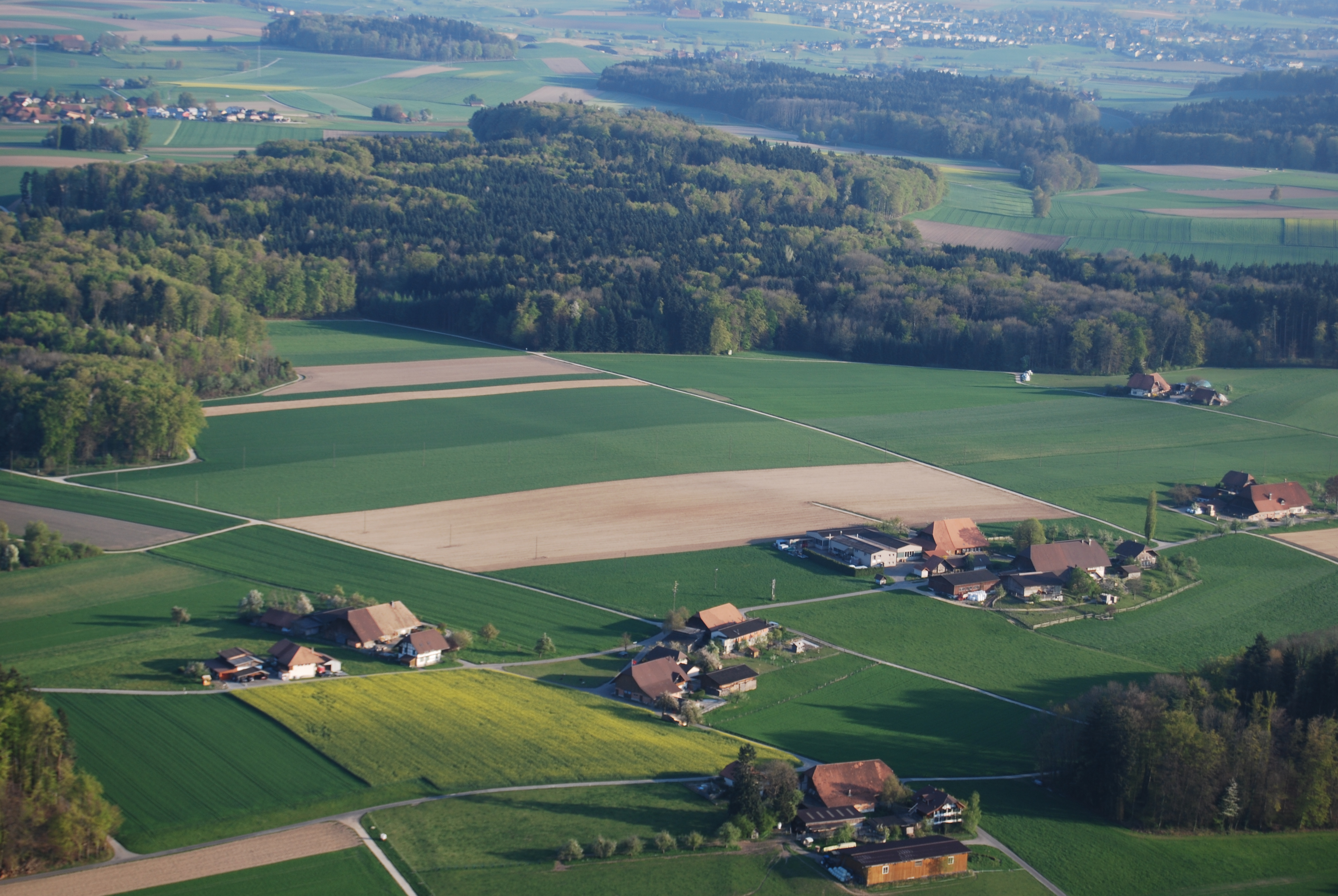 Scheunen, canton of Berne, Switzerland